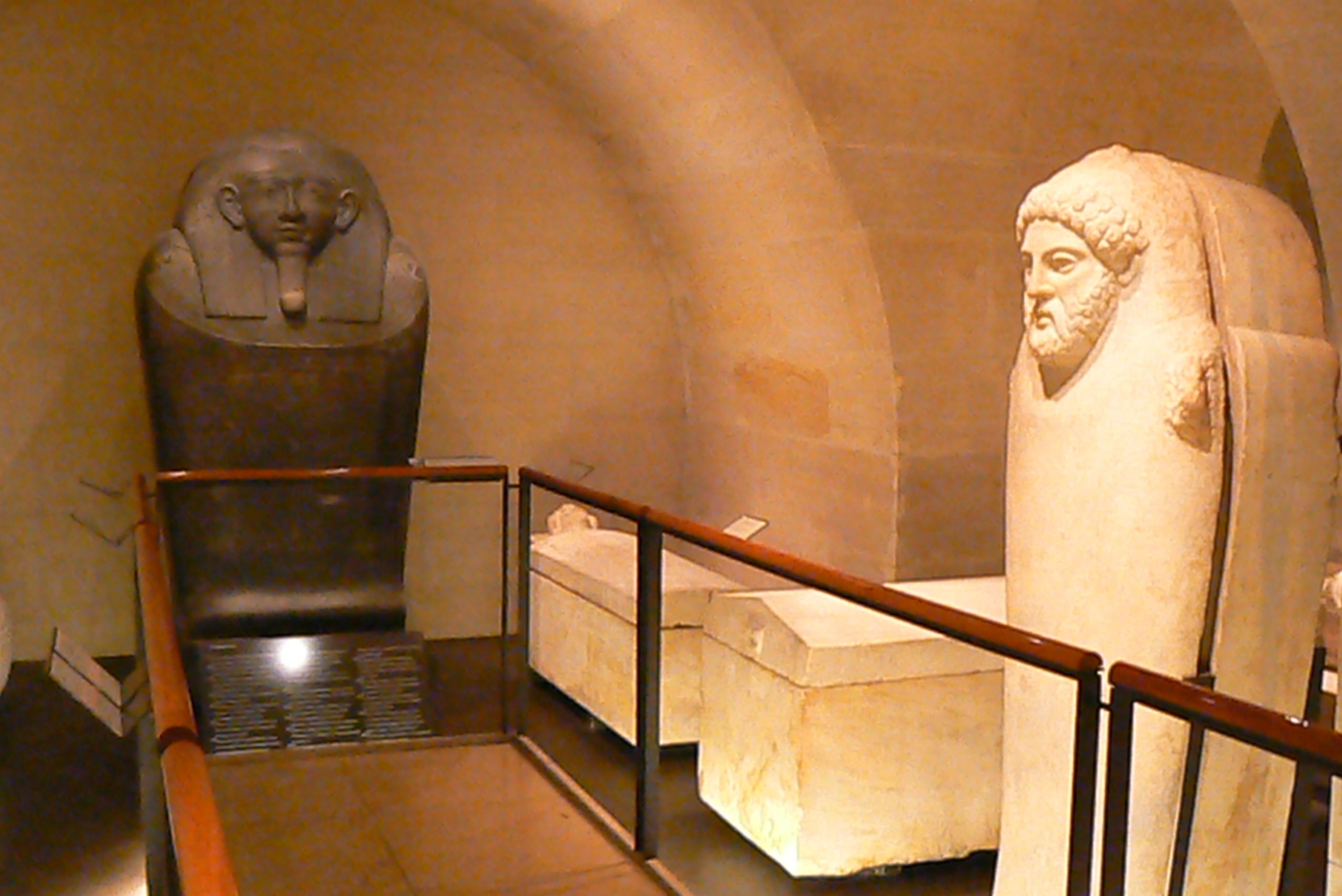 Phoenician art, sacrophagus of Esmunasar, Paris, Louvre - Eshmunazar II sarcophagus